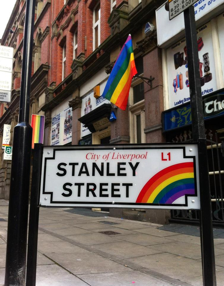 Liverpool was the first British city to install rainbow street signs acknoweldging the Stanley Street gay quarter (November 2011). Rainbow signs are also at Cumberland Street, Eberle Street, Temple Lane and Temple Street.